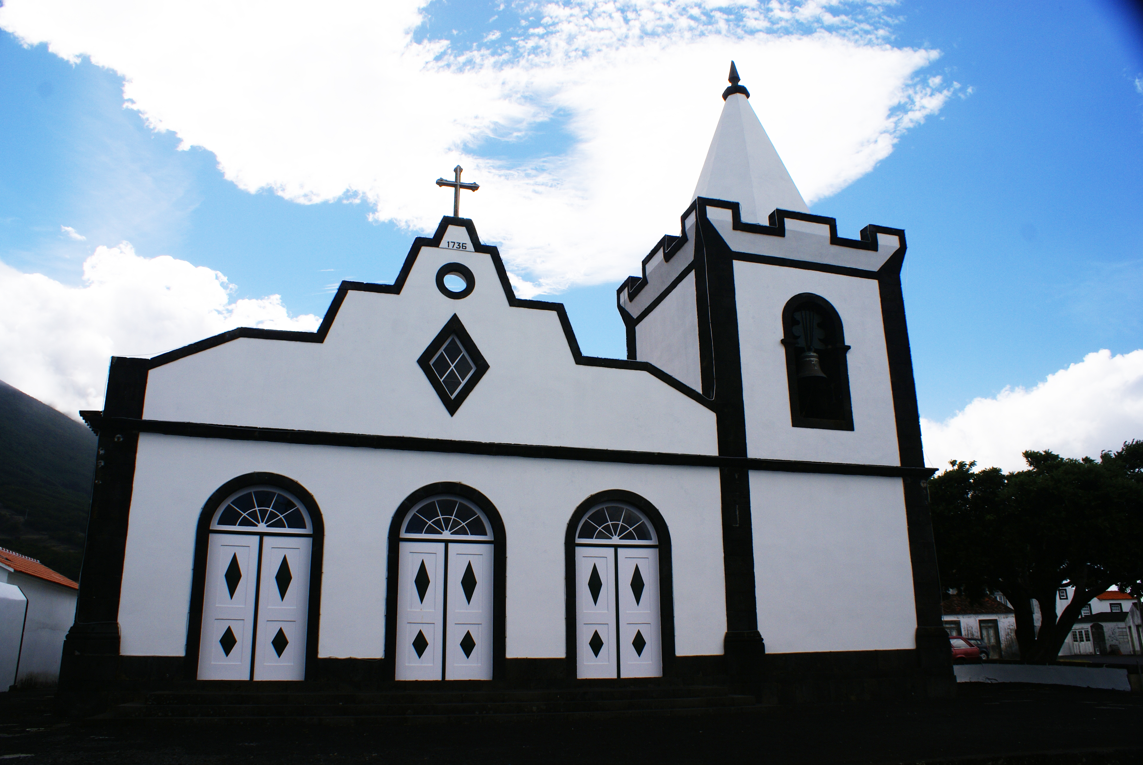 Igreja de Santo Amaro, concelho de São Roque do Pico, ilha do Pico, Açores